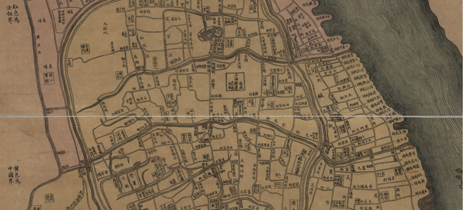 1884年上海南市-老城厢